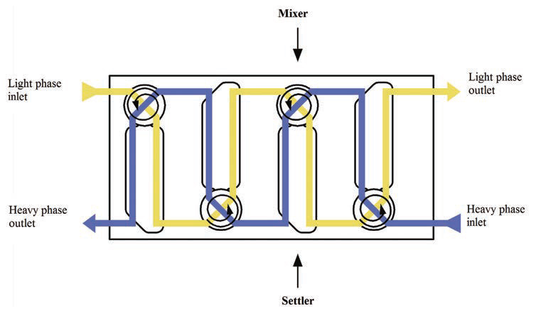 Mixer-settler-schema